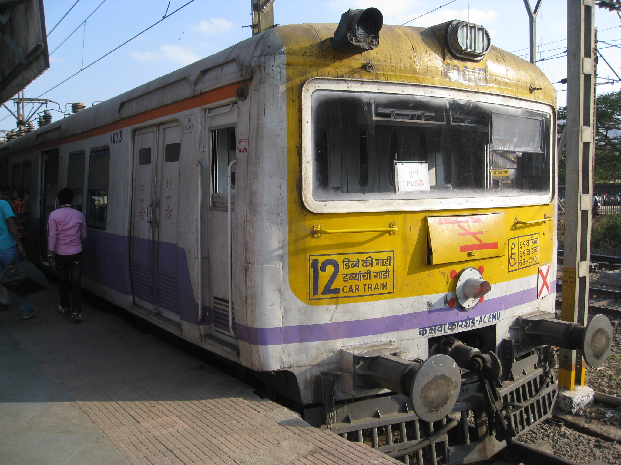 An EMU fleet at Lonavala with one large front window. Once there was two destination rollsigns inside of but removed. (EMU means electric multiple unit.)